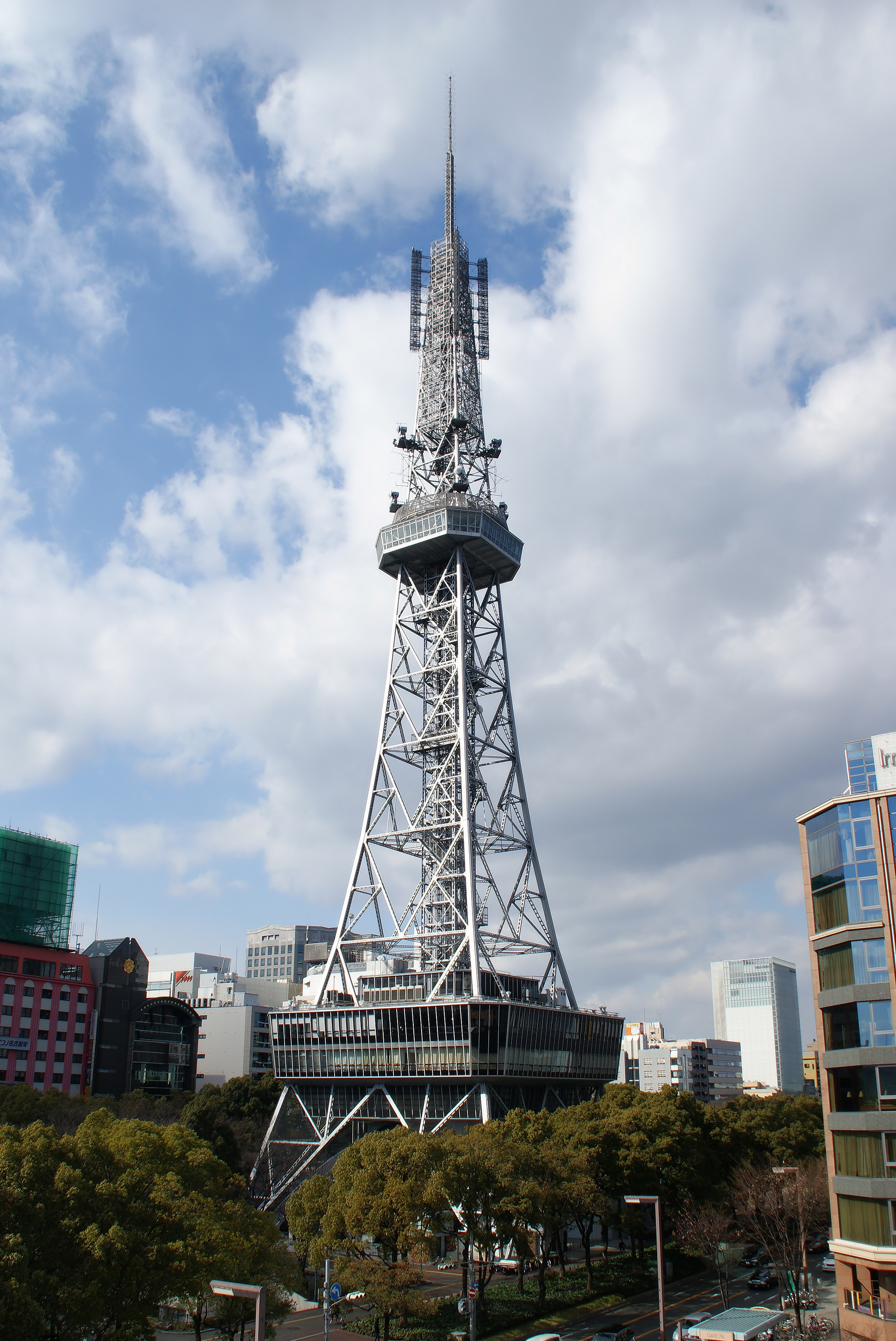 Nagoya TV Tower.(Naka Ward, Nagoya City, Aichi Prefecture, Japan)